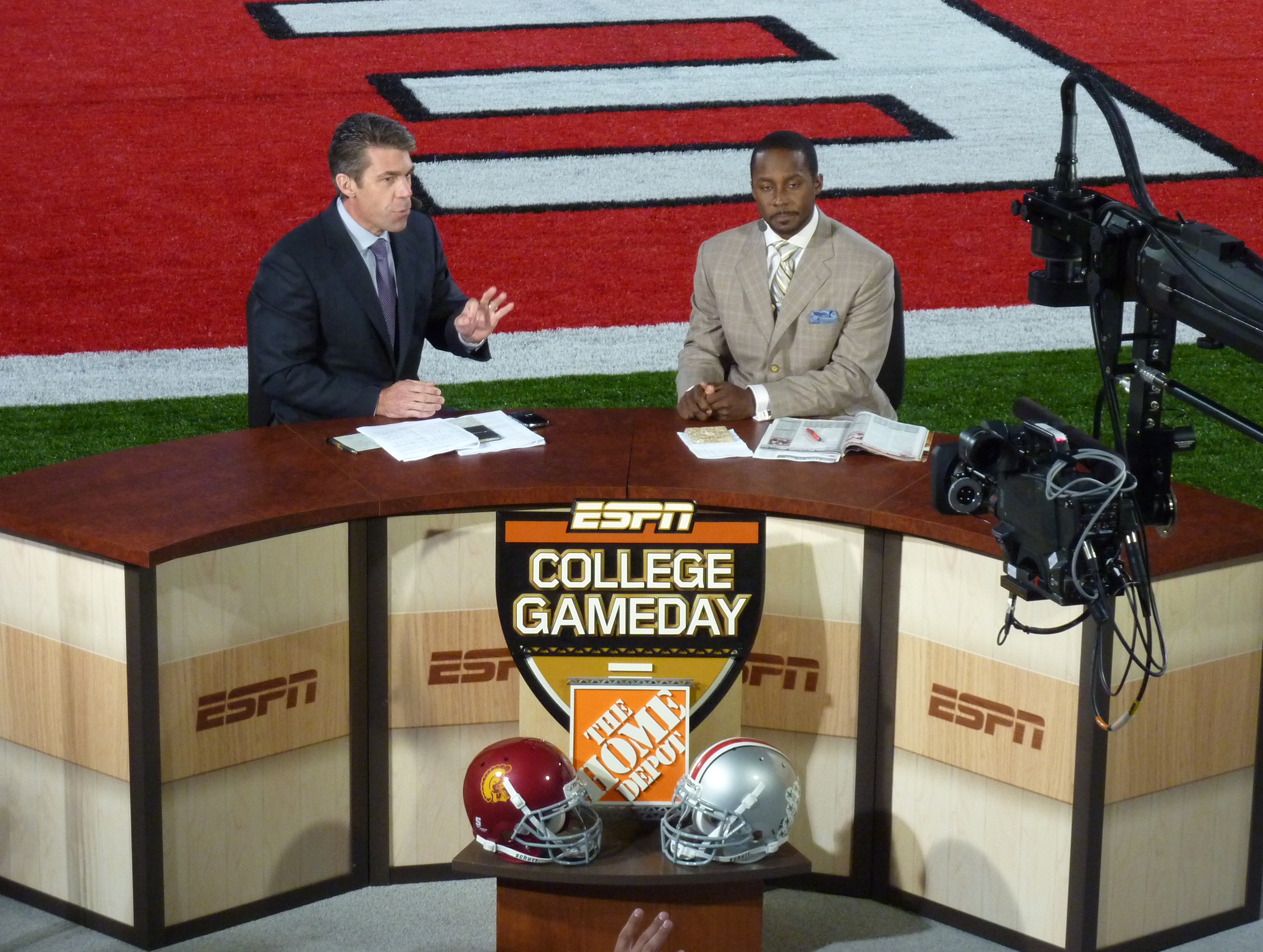 ESPN College GameDays Chris Fowler (left) and Desmond Howard (right) doing post-game analysis after a game at Ohio Stadium in Columbus, Ohio.